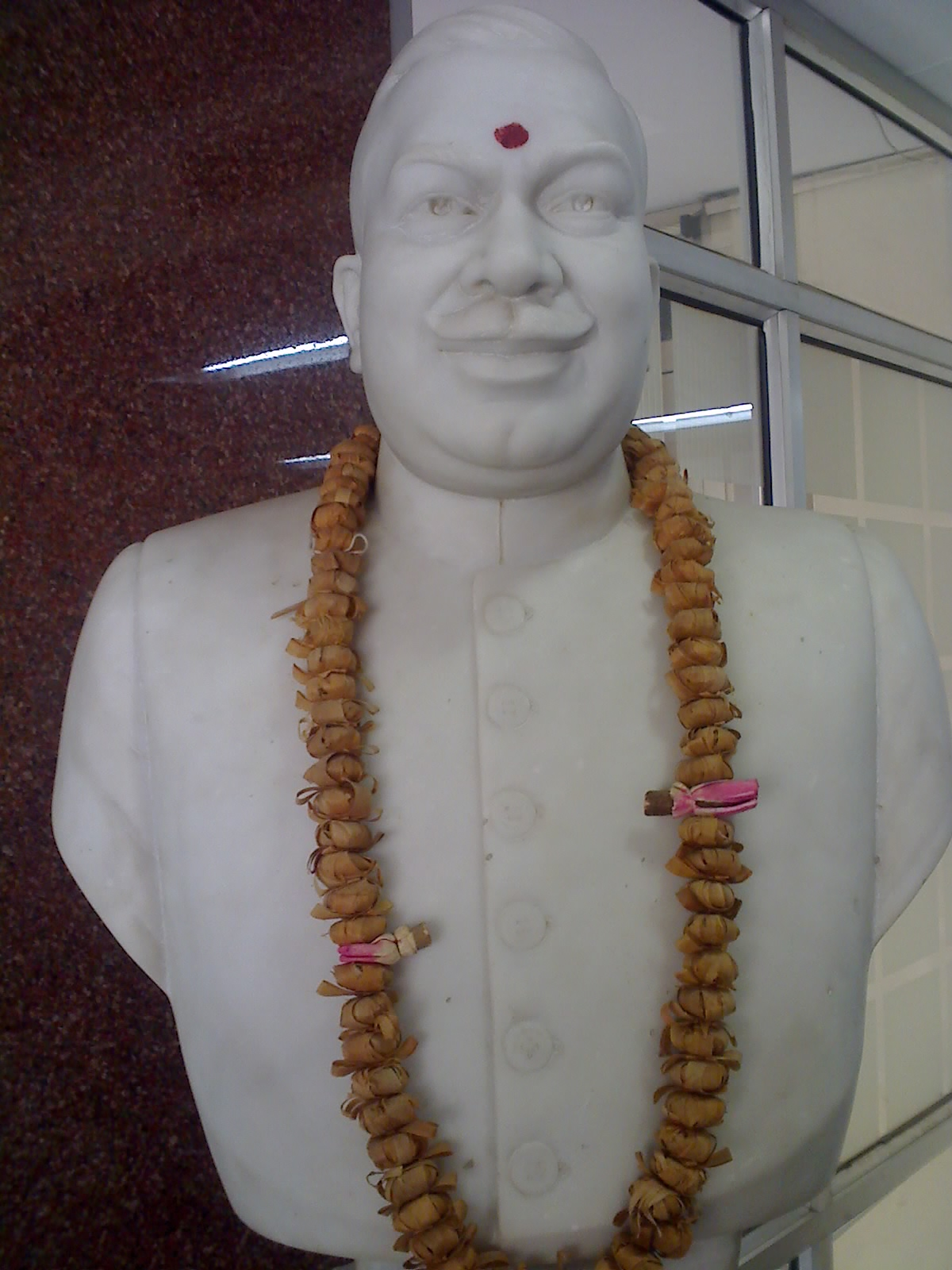 Gujar Mal Modi